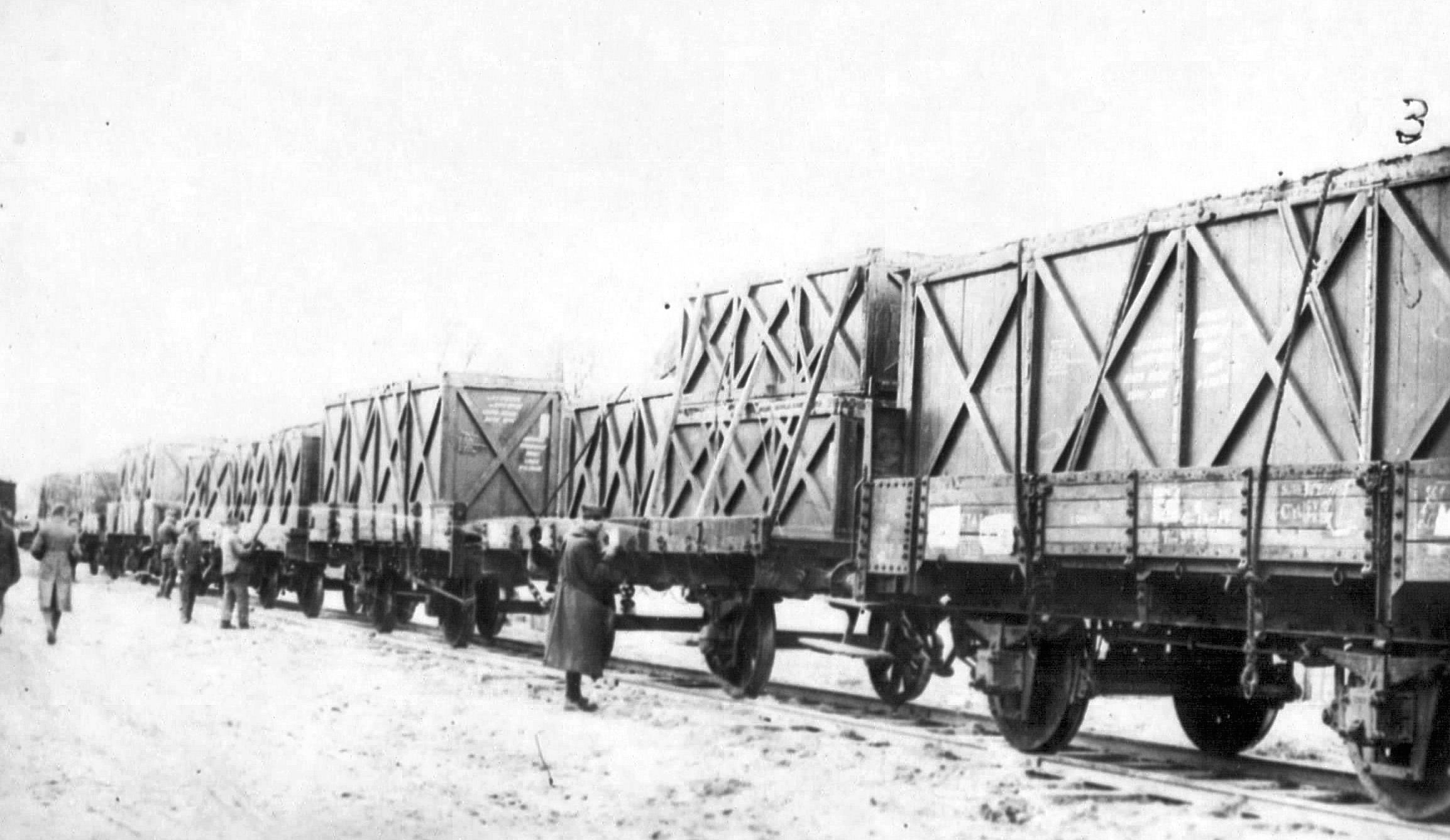 Romorantin Aerodrome - DH-4 Crates on Railcars